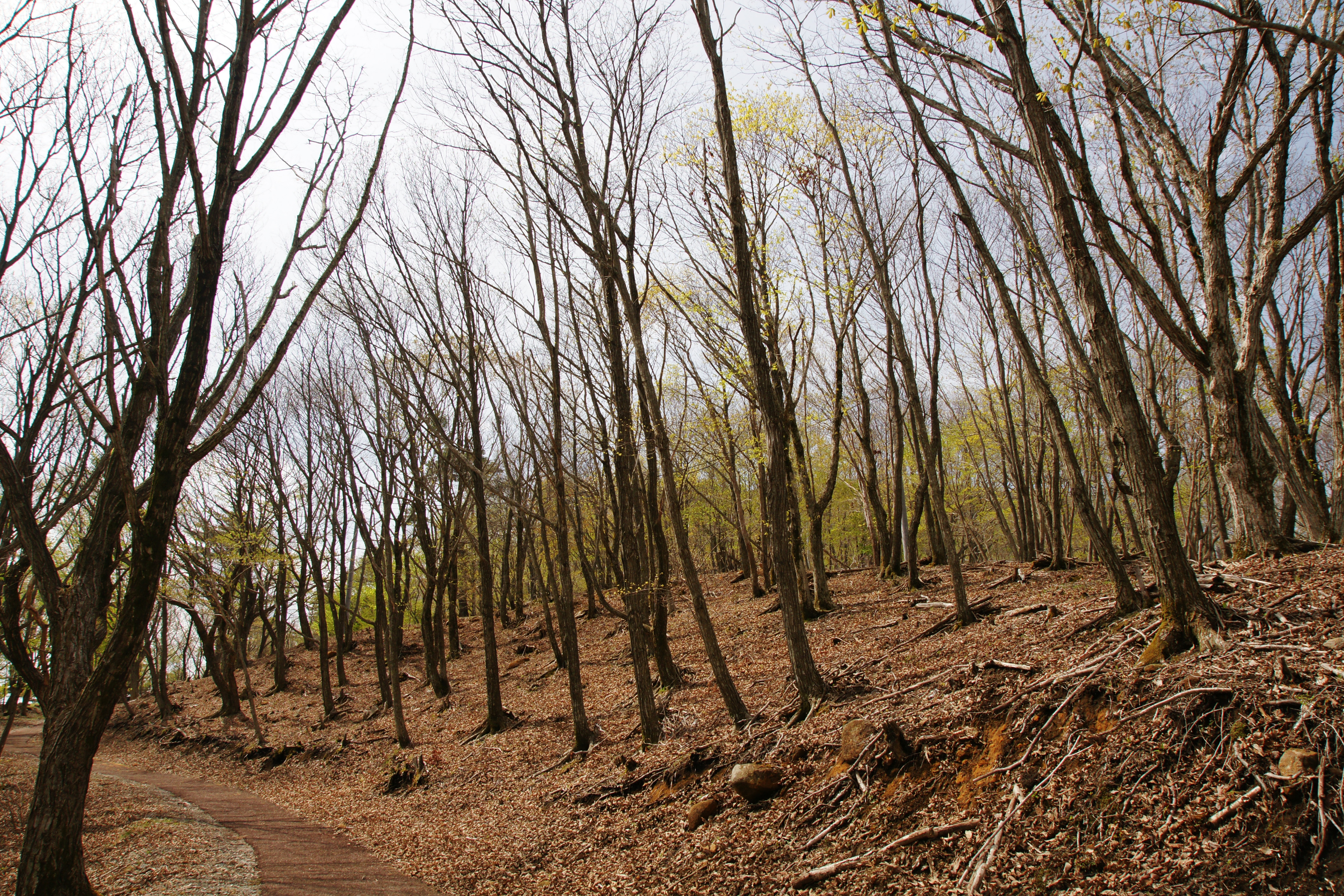 Mineyama highlands in Kamikawa, Hyogo prefecture, Japan.